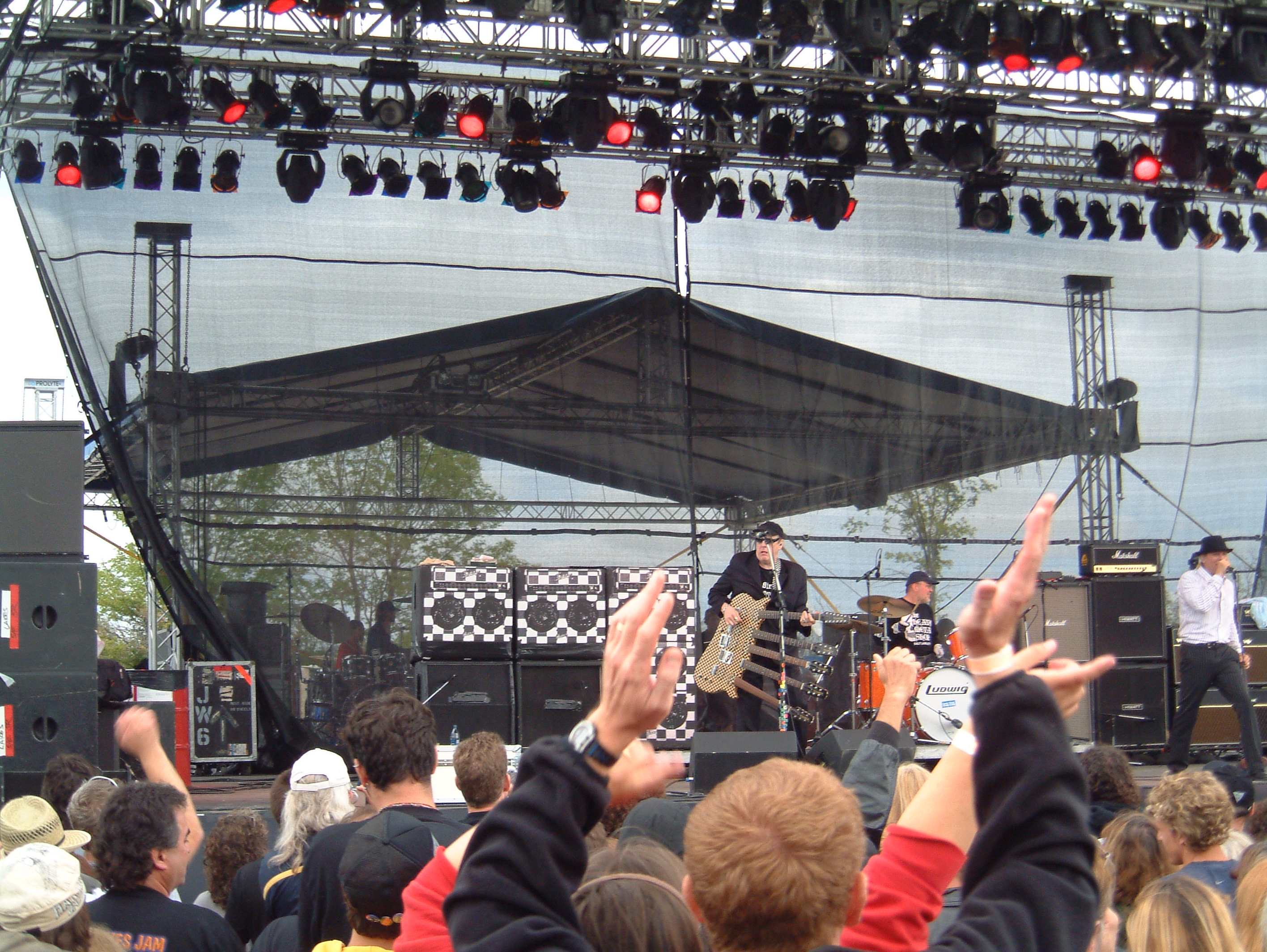 Cheap Trick at Great Lakes Jam. Taken by Paul J. Scott in August, 2004.